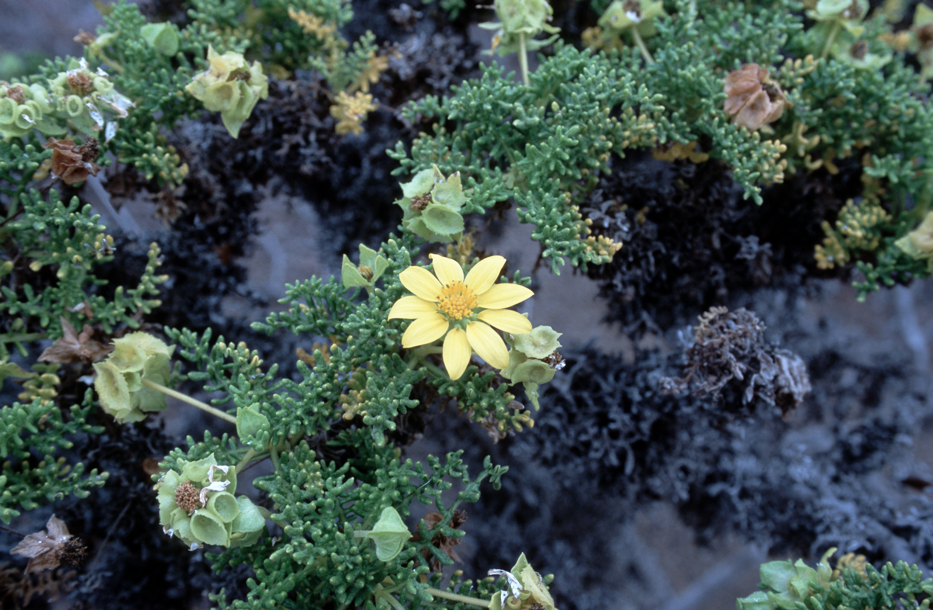 Lecocarpus pinnatifidus on Floreana Island